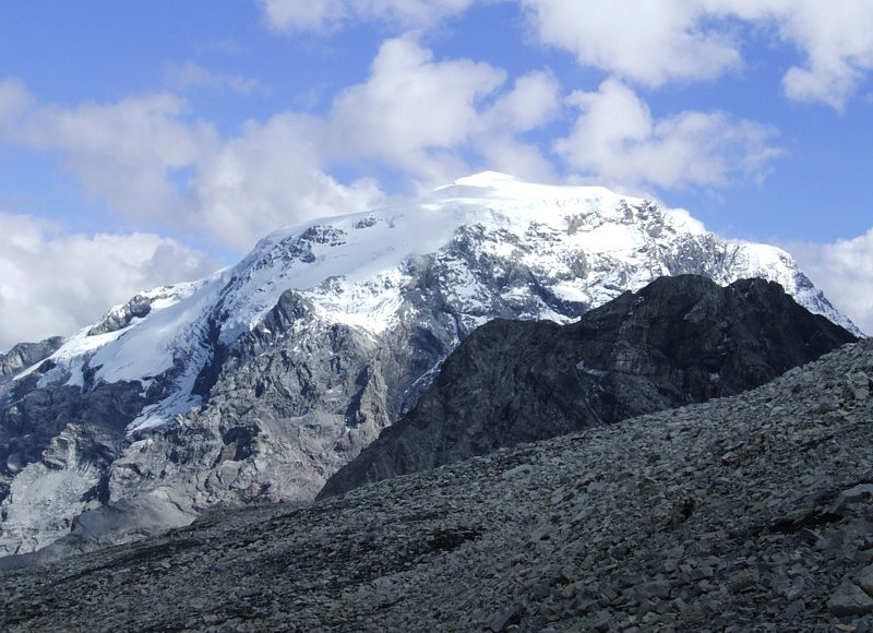 Ortler, seen from the Stelviopass Picture taken by user Idefix september 2005